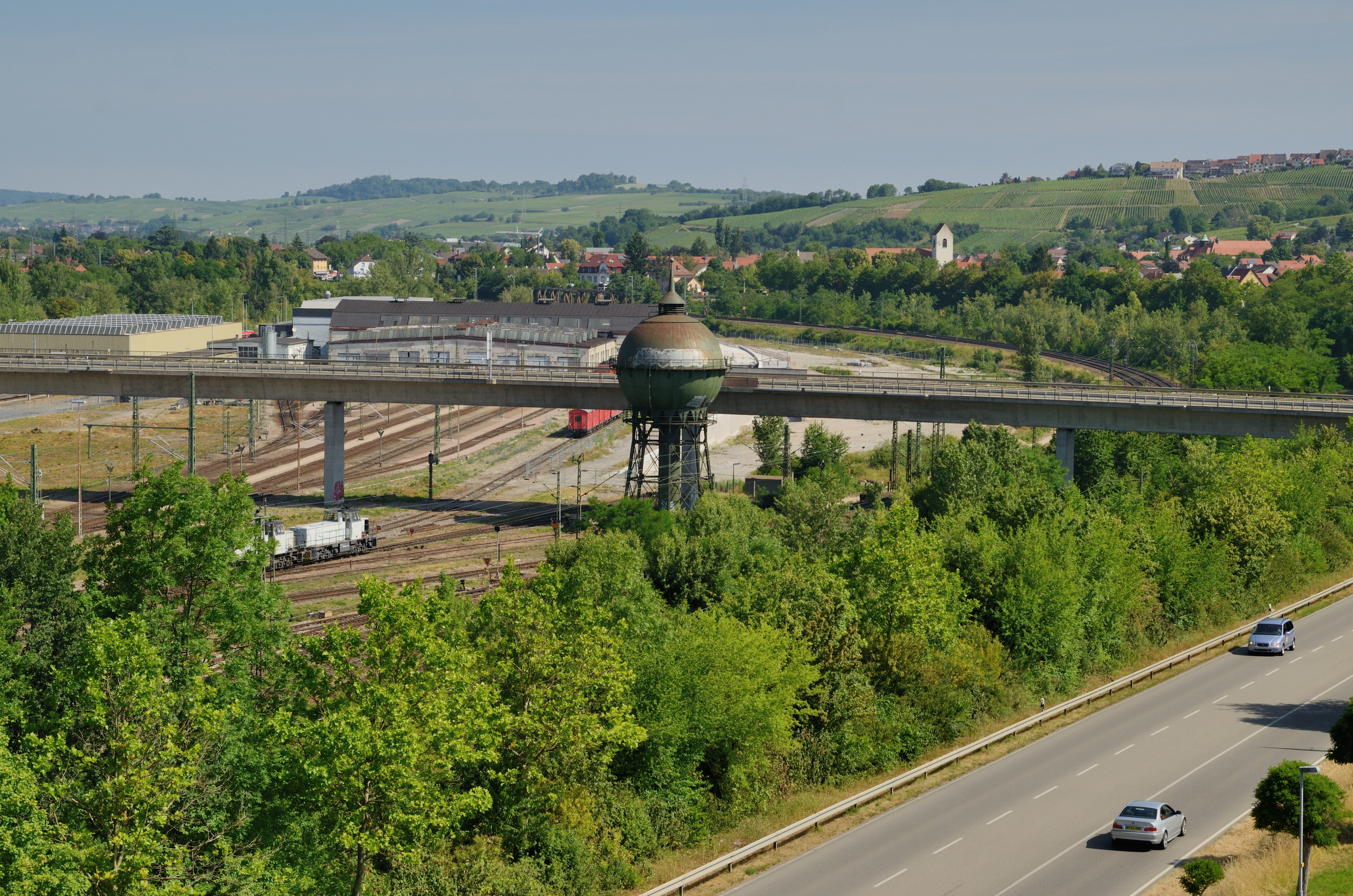 View from Vitra Slide Tower